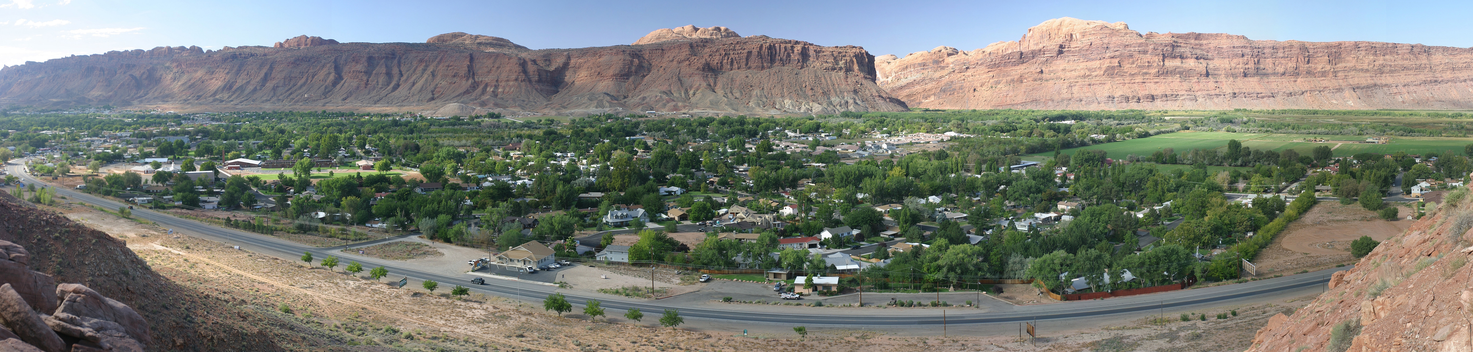 A view of the city of Moab, Utah, USA from the northern canyon walls that surround it. This is a panorama of 8 segments taken vertically with a Canon 10D and 17-40mm f/4 L lens. Unfortunately the far left segment is slight out of focus. :(